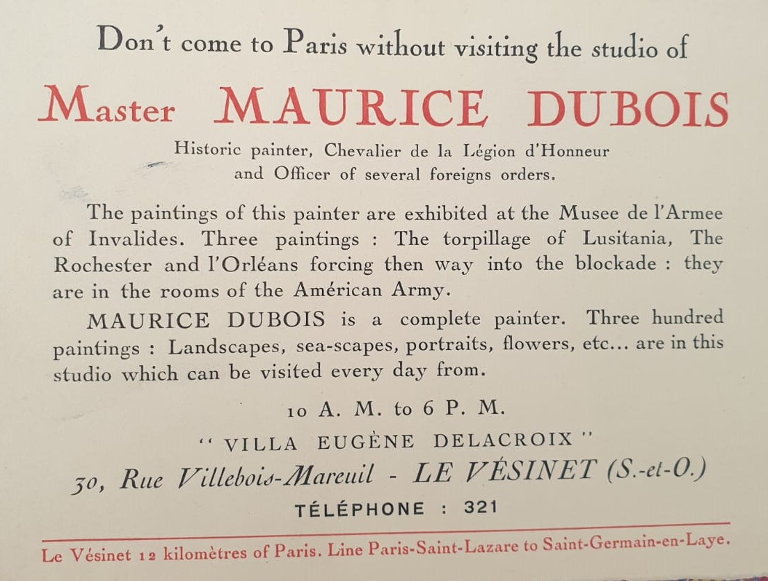 Advertisement Maurice Dubois